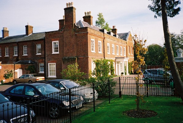 Newell Hall. Now apartments by the look of things.